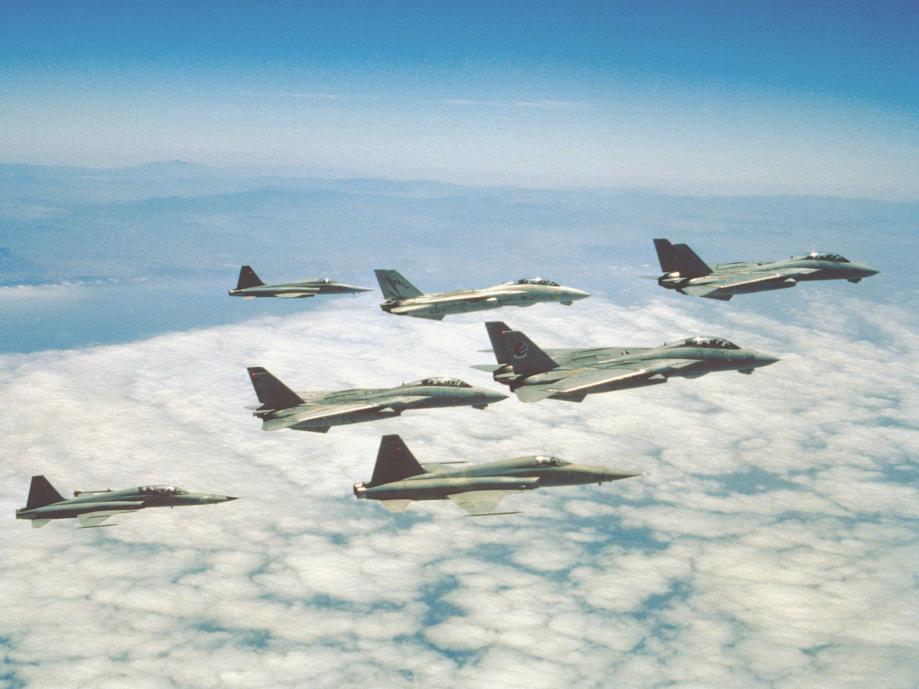 A formation of U.S. Navy Grumman F-14A Tomcats of Fighter Squadron 51 (VF-51) "Screaming Eagles" and VF-111 "Sundowners", and Northrop F-5E/F Tiger IIs of the Navy Fighter Weapons School. These units represented a vital part of the U.S. Navy's participation in the 1986 feature-film "Top Gun", providing the aerial dogfighting sequences that were a defining trademark of this movie. Note the fictitious markings on the tail of at least one of the F-14s.